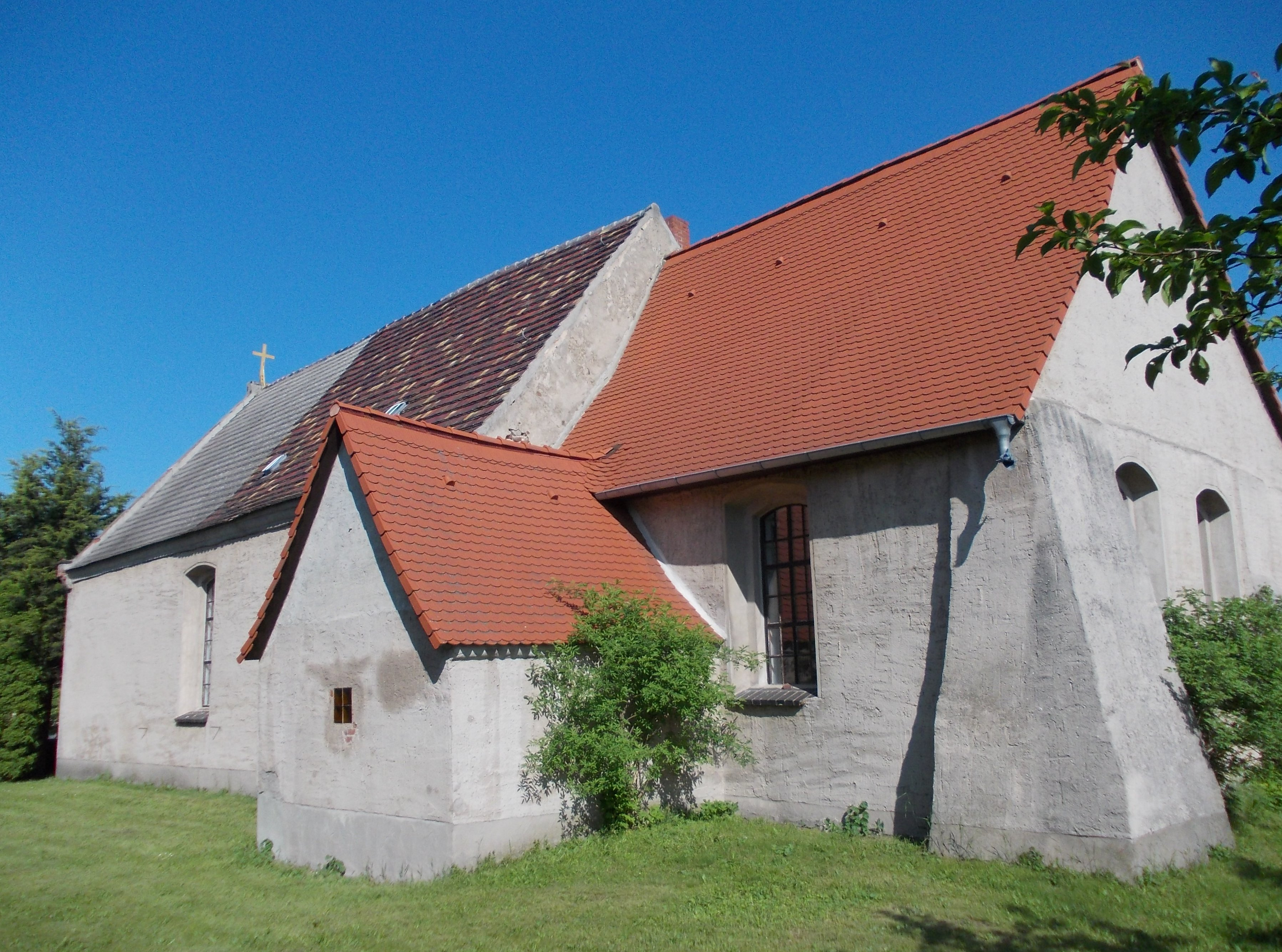 Radis church (Kemberg, Wittenberg district, Saxony-Anhalt)